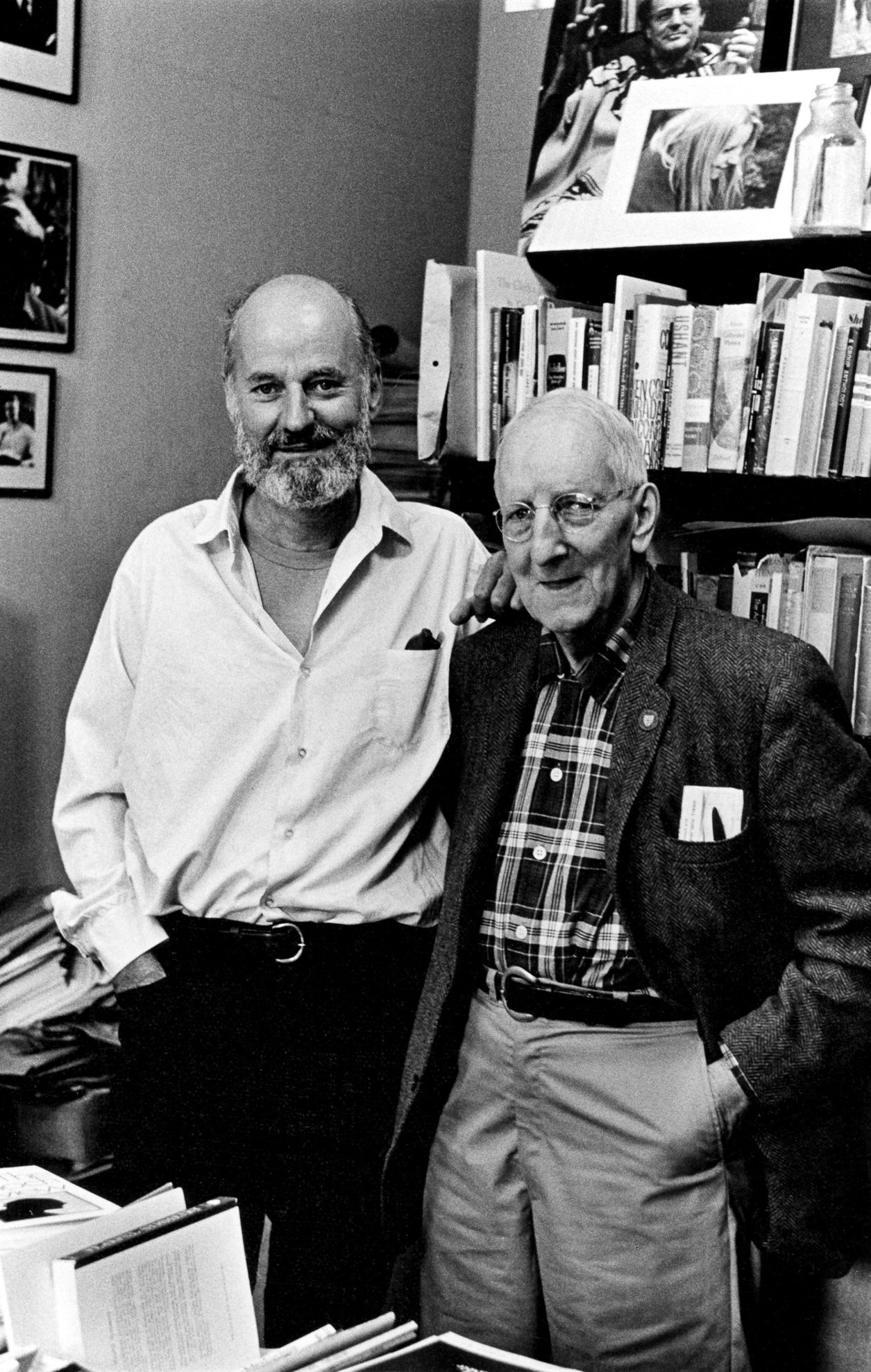 At the Grolier Bookshop in Harvard Square in the 1960s, with Gordon Cairnie, the owner at the time.